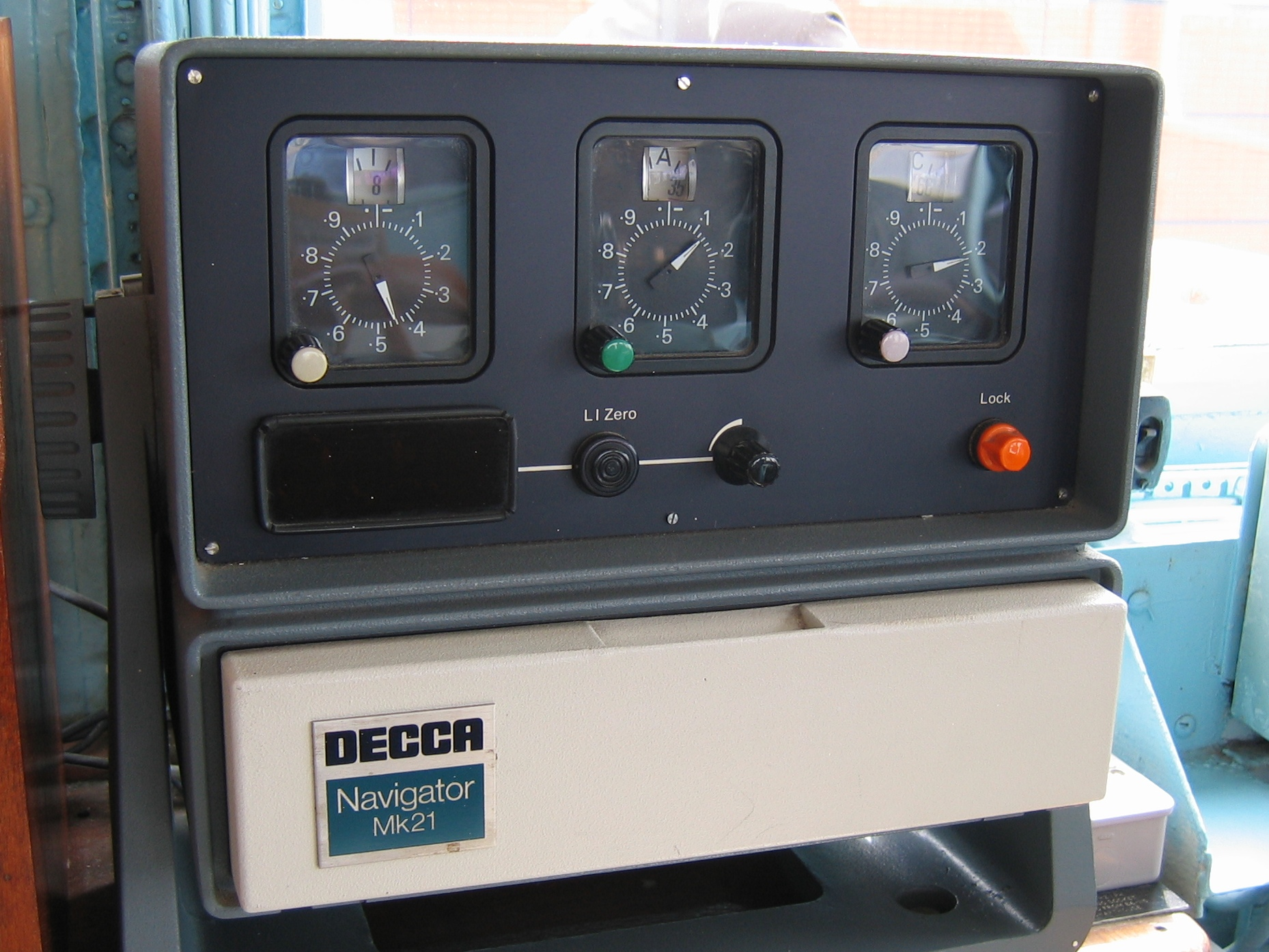 Decca navigator Mark 21, successor of the Mark 12.